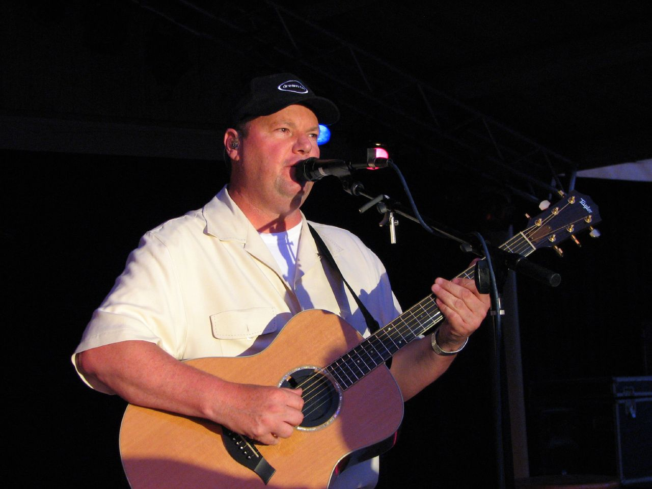 christopher cross in beaumont ca